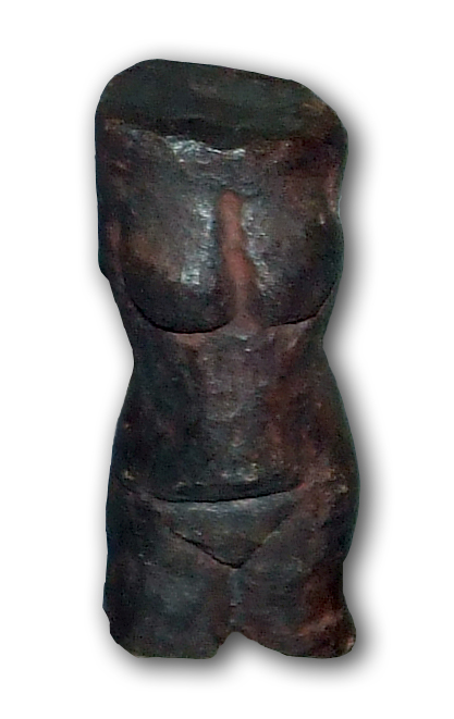 Prehistoric Times of Bohemia, Moravia and Slovakia, National Museum in Prague. Venus of Petřkovice (c. 23k BP) (replica). Česky: Pravěké dějiny Čech, Moravy a Slovenska, Národní muzeum v Praze. Petřkovická venuše (replika).